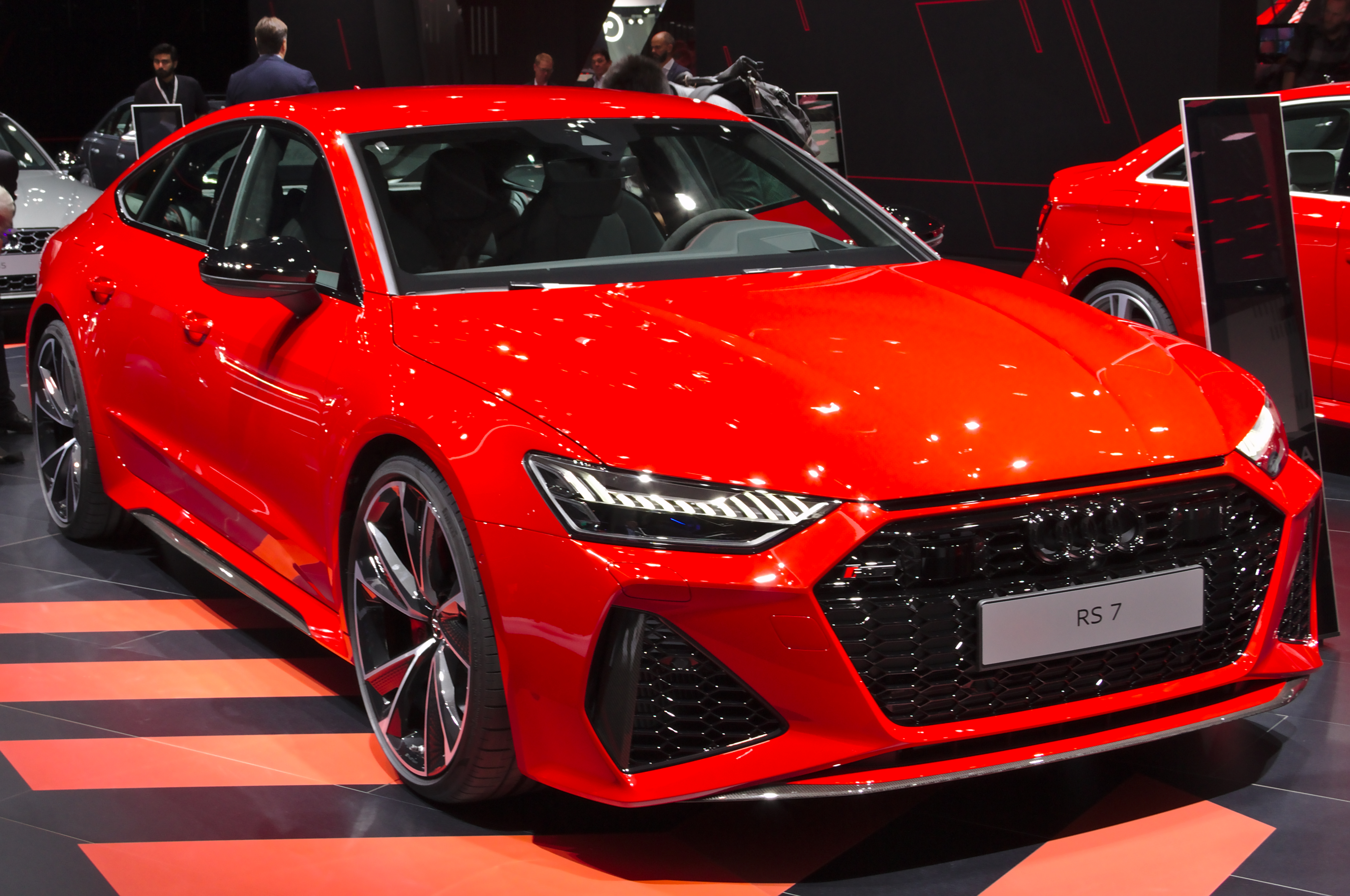 Audi_RS7_C8 at IAA 2019